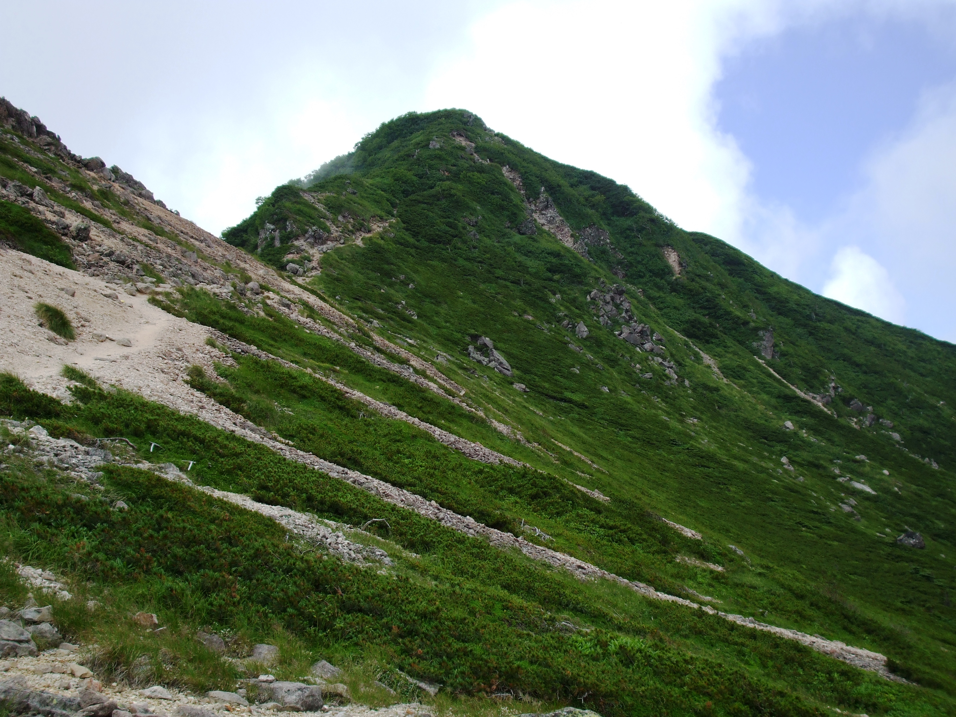 Mount Neishi, of Yatsugatake Mountains, Nagano, Honshu, Japan.